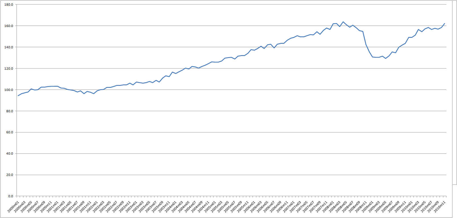 Evolution of World Trade volumes, 2000-2010. 2000=100. Source: World Trade Monitor, CPB Netherlands Bureau for Economic Policy Analysis[1]